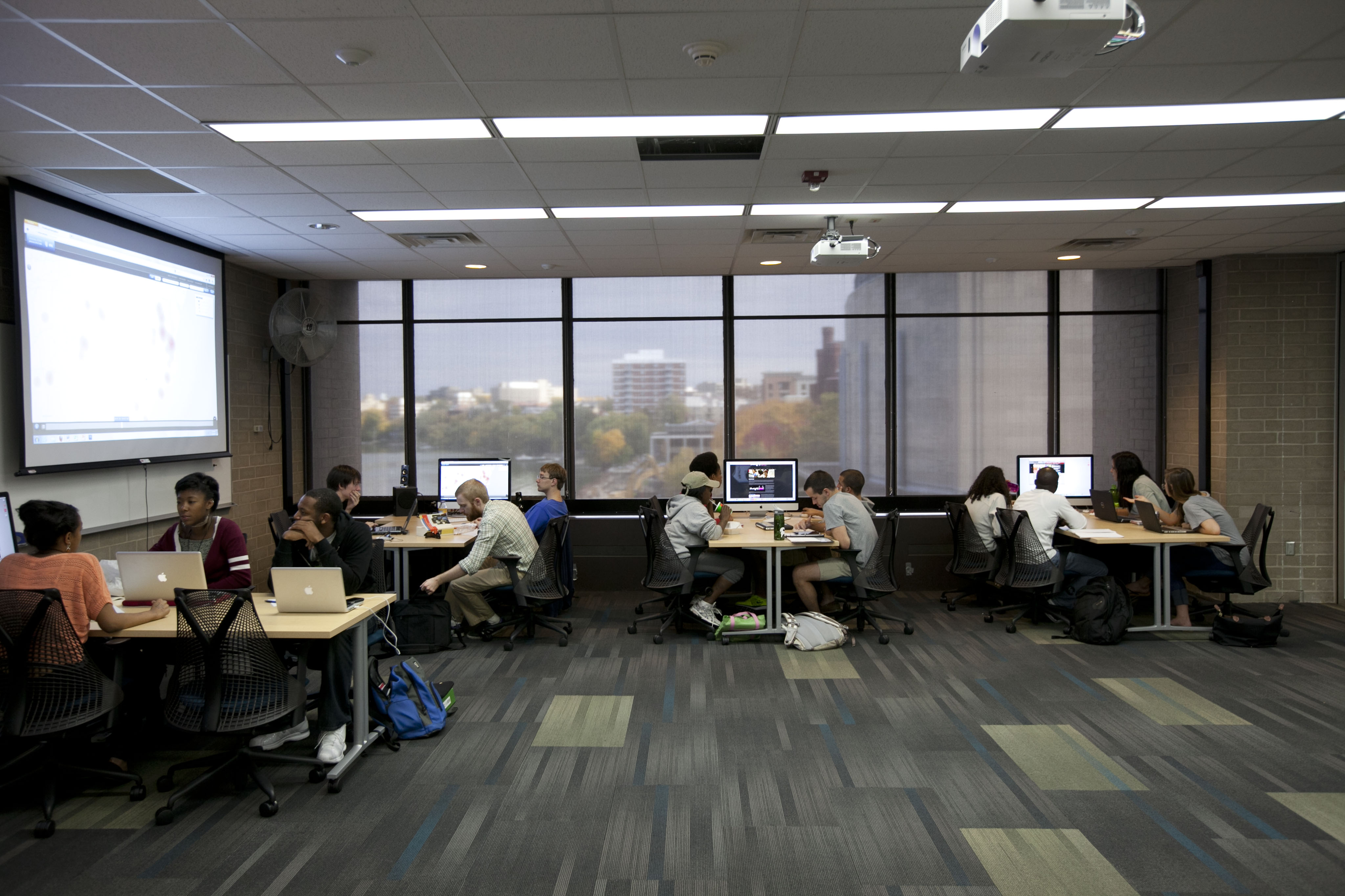 Media Studios in College Library